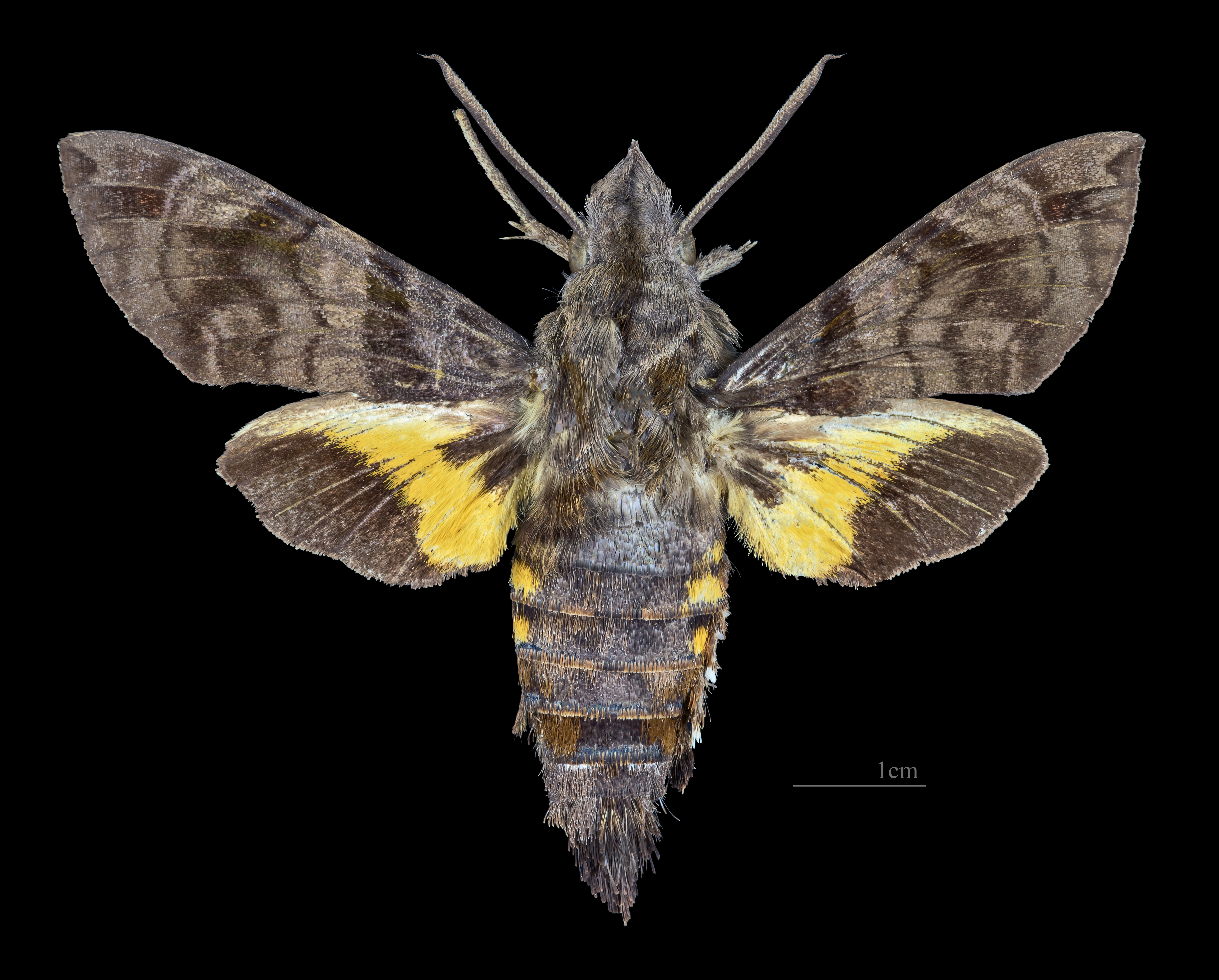 Macroglossum ungues - Dorsal side Collection of the Mathematician Laurent Schwartz